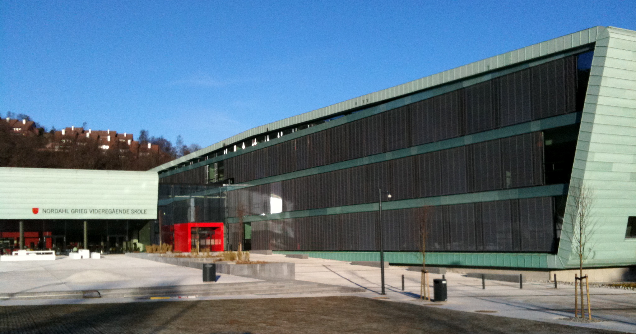 Nordahl Grieg videregående skole, a school in Bergen, Norway